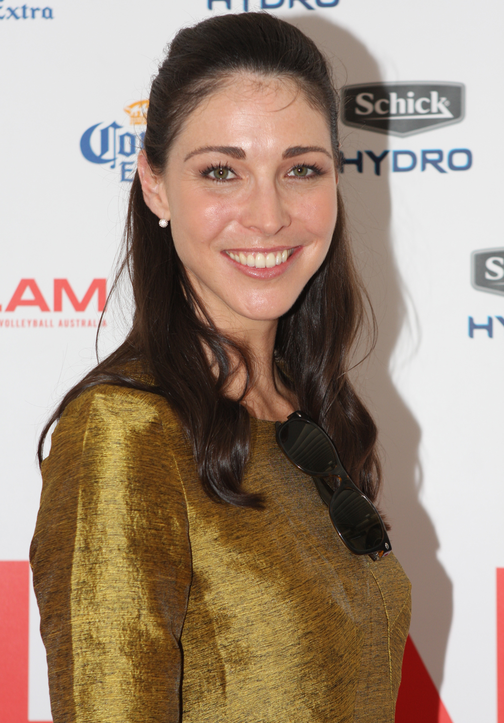 SLAM SUMMER BEACH VOLLEYBALL FESTIVAL kicking off ; Bondi Beach, Sydney, Australia